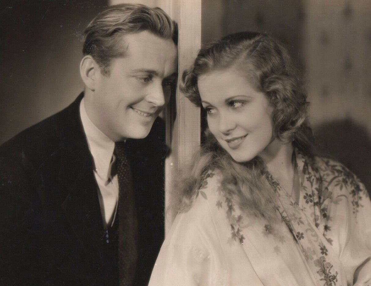 Press photo of James Dunn and Boots Mallory in the 1933 film "Walking Down Broadway"